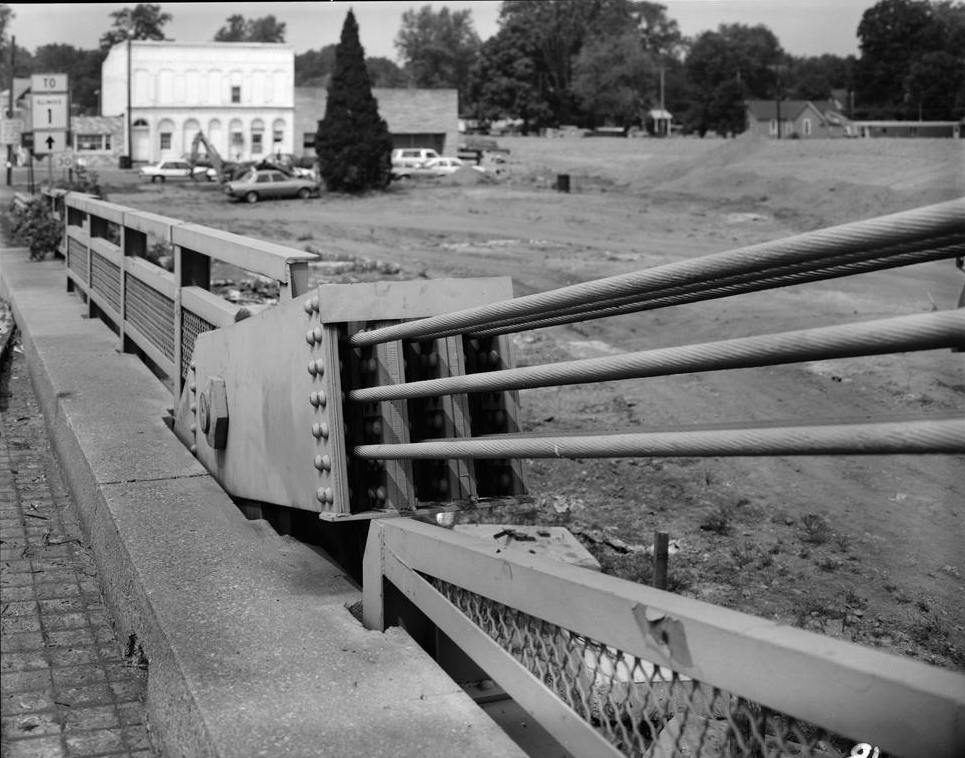 Hutsonville Bridge image, showing self anchored cables, retrieved from Historic American Engineering Record